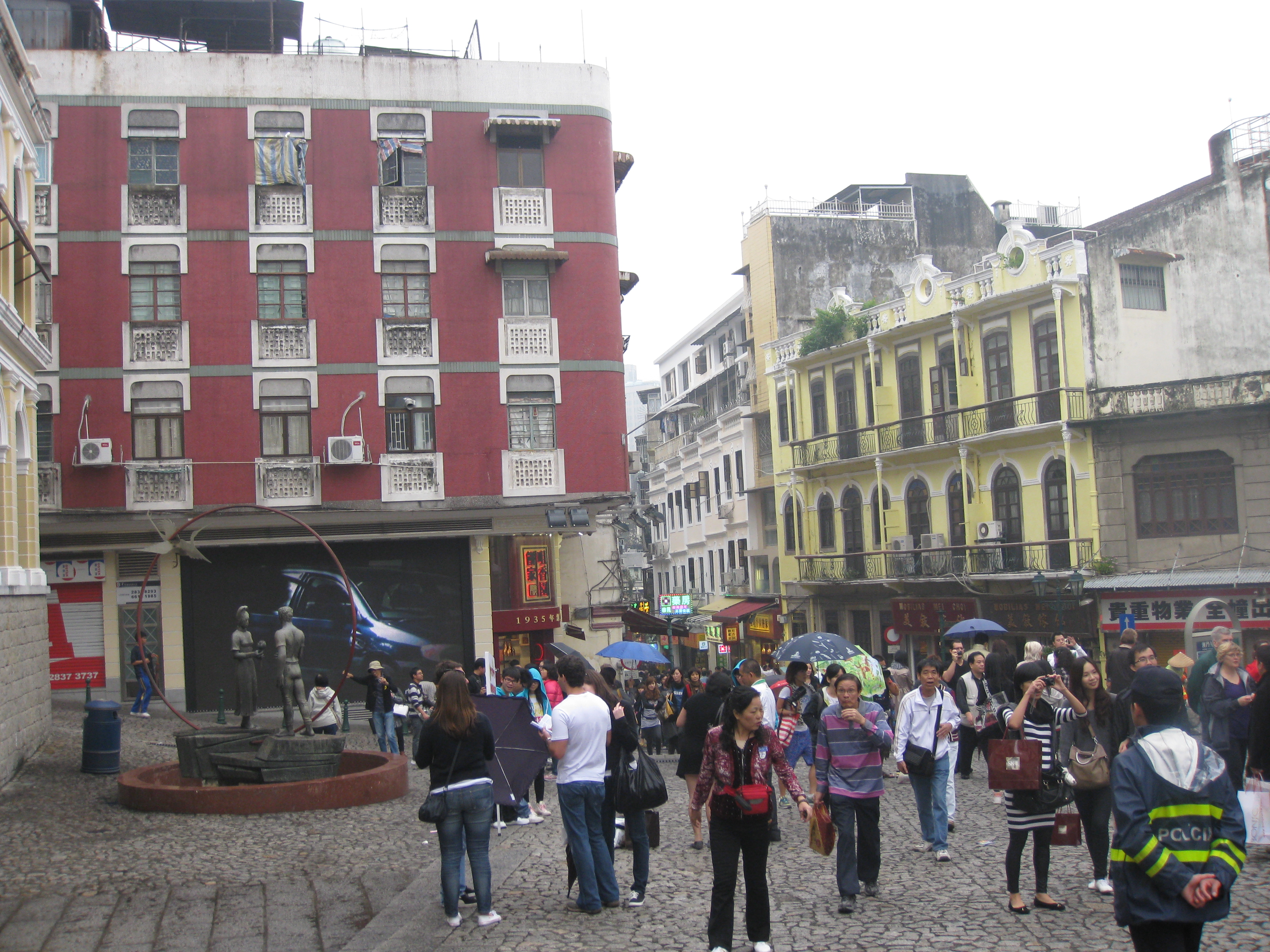 Historic Centre of Macau